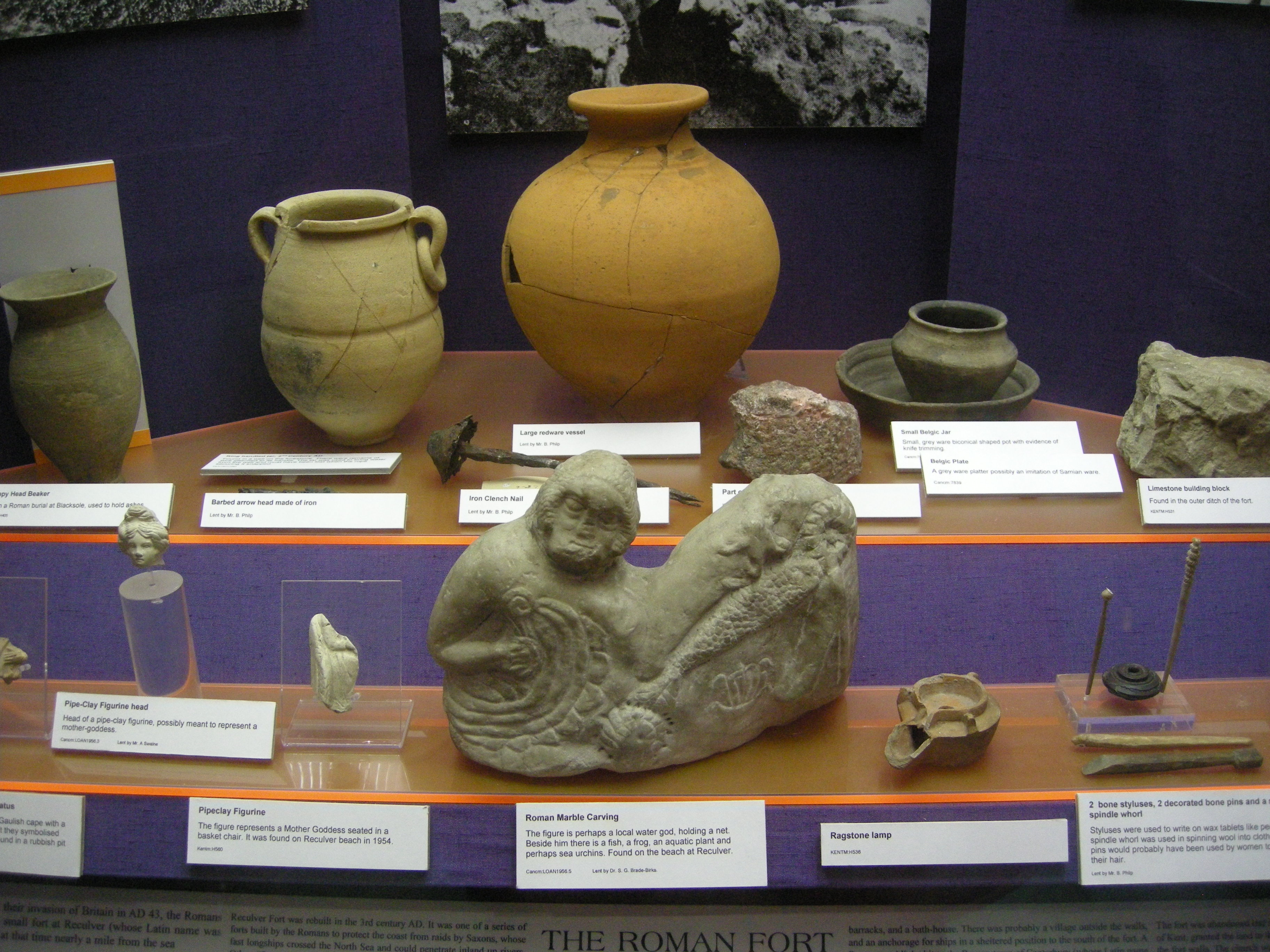 Roman artefacts found in the Reculver area, exhibited at Herne Bay Museum and Gallery